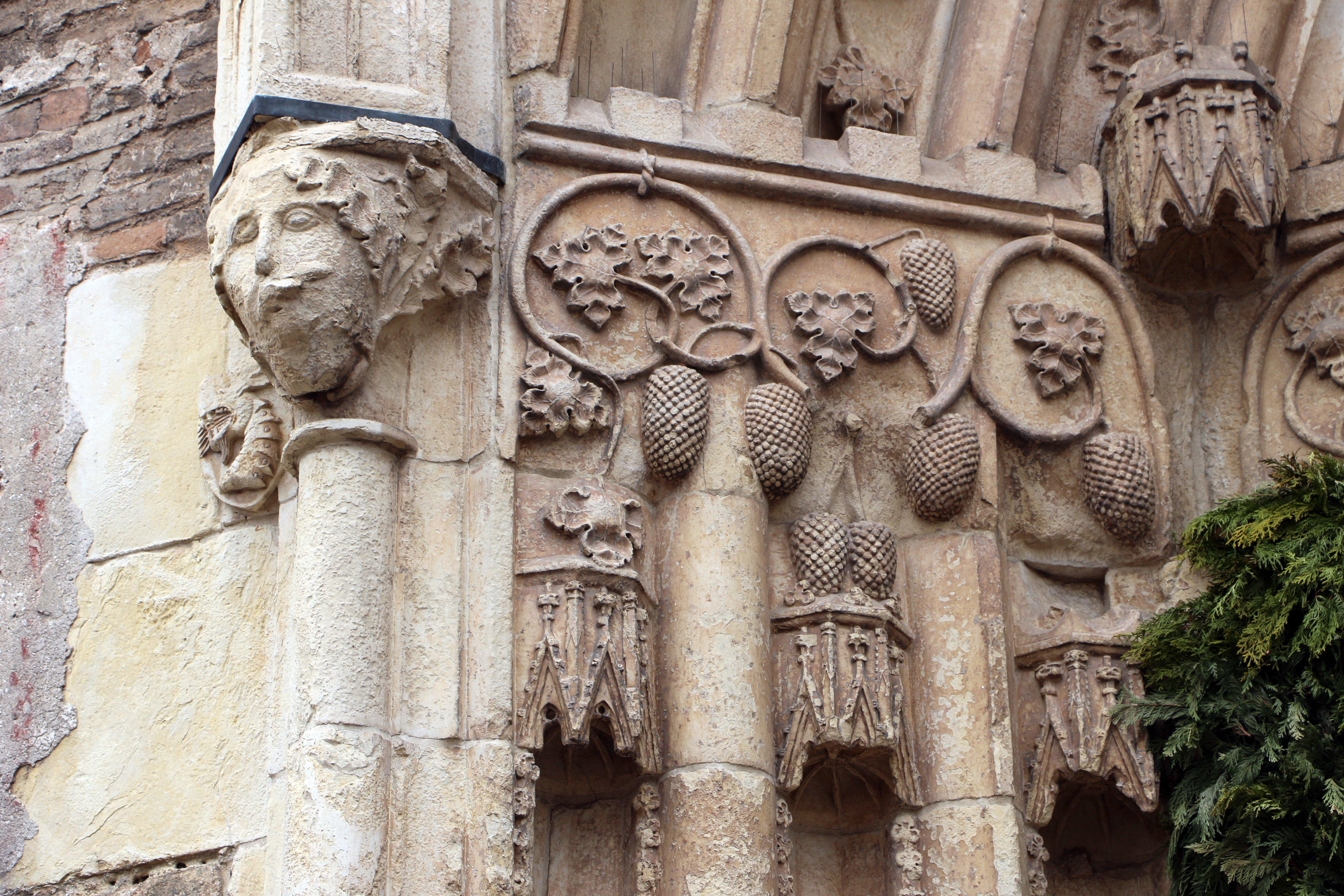 Duomo (Udine)